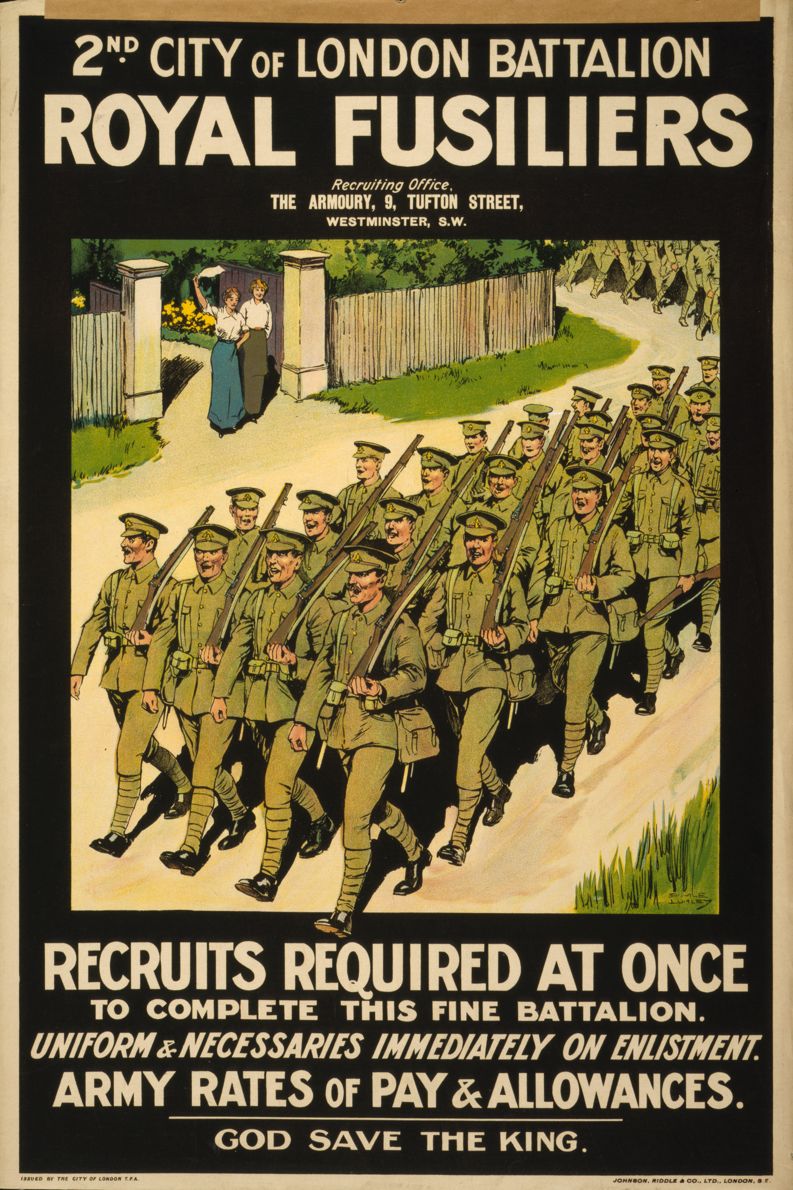 Title: 2nd City of London Battalion, Royal Fusiliers. Recruits required at once to complete this fine battalion Abstract: Poster showing a battalion marching down a lane, as two women standing by a gate watch and wave. Physical description: 1 print (poster) : lithograph, color ; 76 x 51 cm. Notes: Savile Lumley ; Johnson, Riddle & Co., Ltd., London, S.E.; Recruiting office, The Armoury, 9, Tufton Street, Westminster, S.W.; Text continues: Uniform and necessaries immediately on enlistment. Army rates of pay & allowances. God save the King.; Title from item.